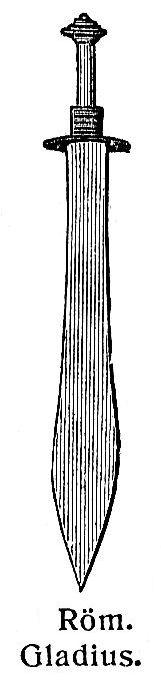 Roman Gladius (sword)